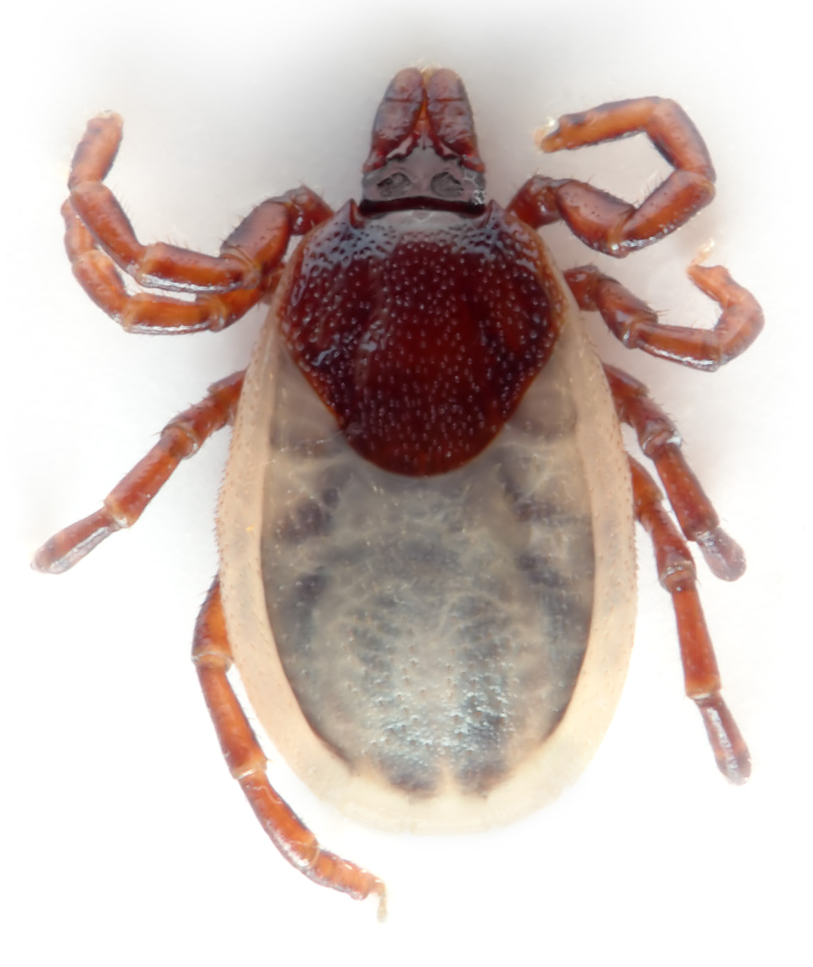 This image shows an only 0.16 inch (4 mm) small, living tick of the species Ixodes hexagonus from the top.